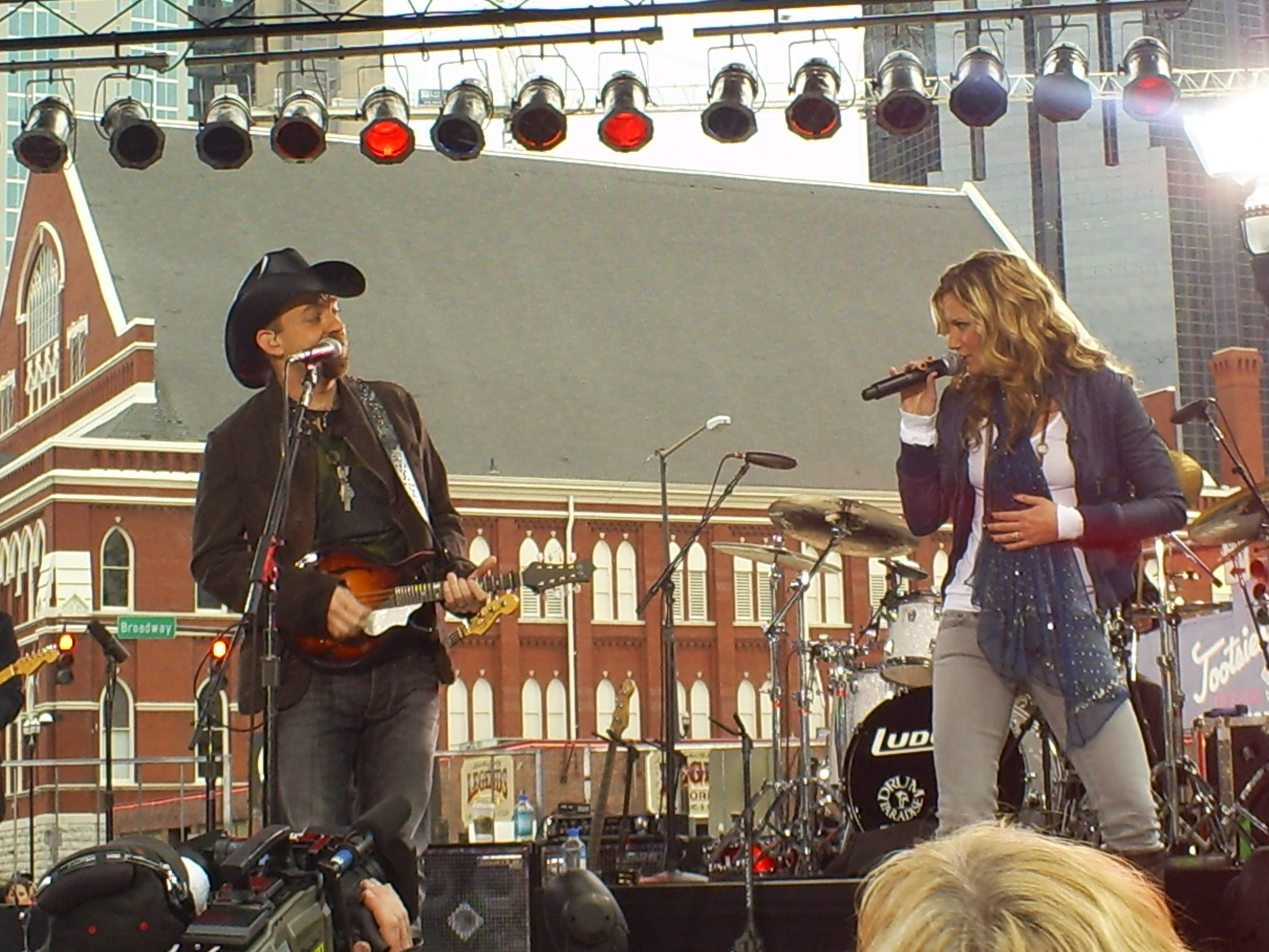 Sugarland on Good Morning America the morning of the 2006 CMA Awards. The concert was filmed outside Nashville's Sommet Center